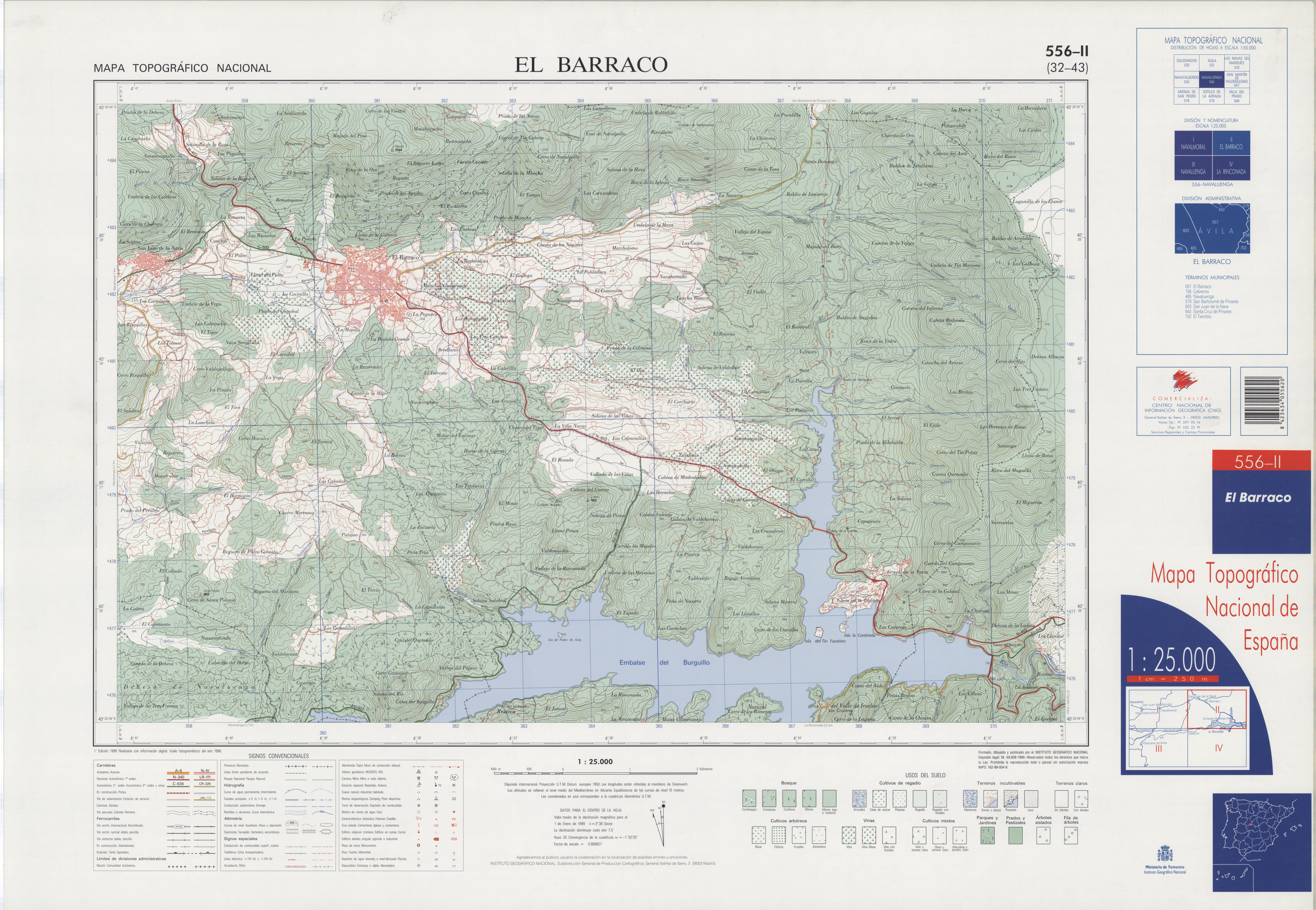 Fragment 0556c2 of the National Topographic Map of Spain in 1999 at a scale of 1:25000 printed and scanned with a resolution of 250 ppi. It shows El Barraco.